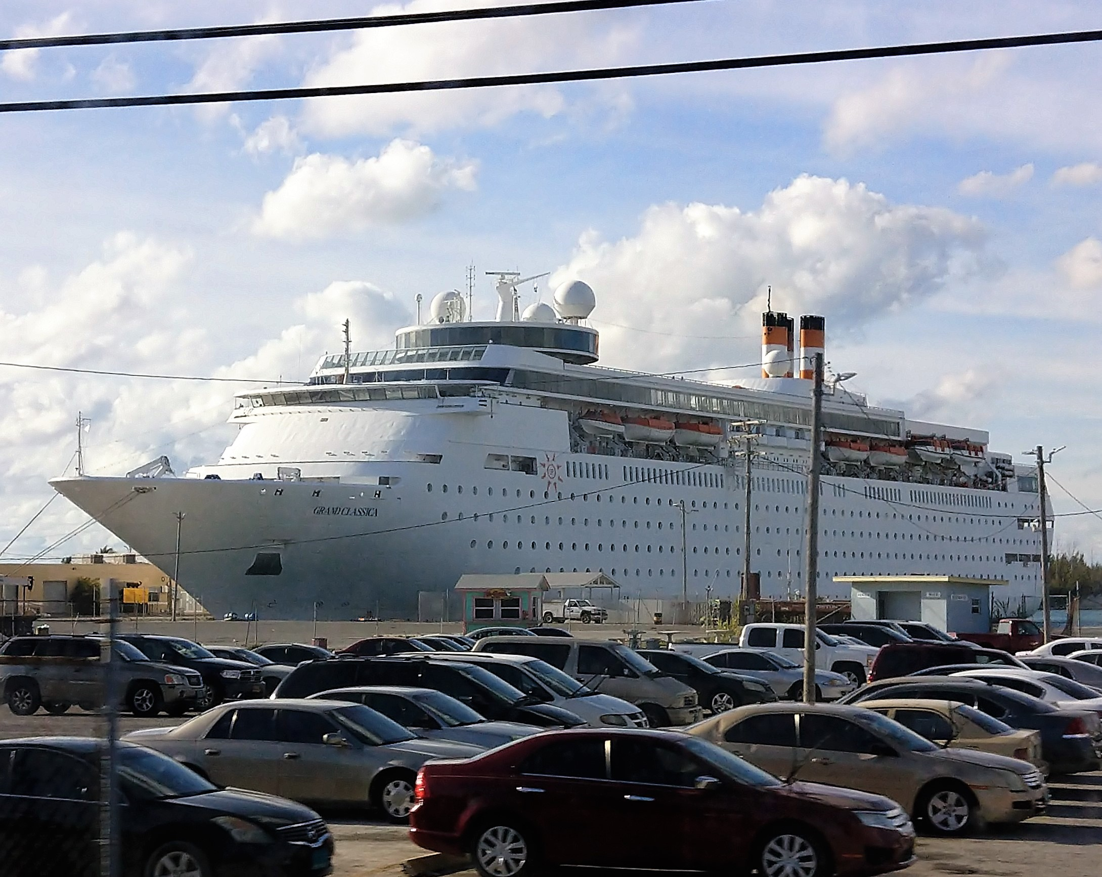 The Grand Classica docked in Freeport, Bahamas.